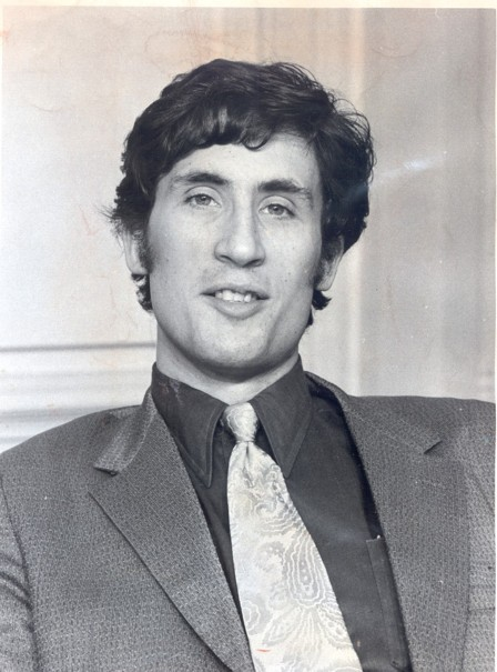 David Allen "Dave" Clarke former Chairman of the D.C. City Council.